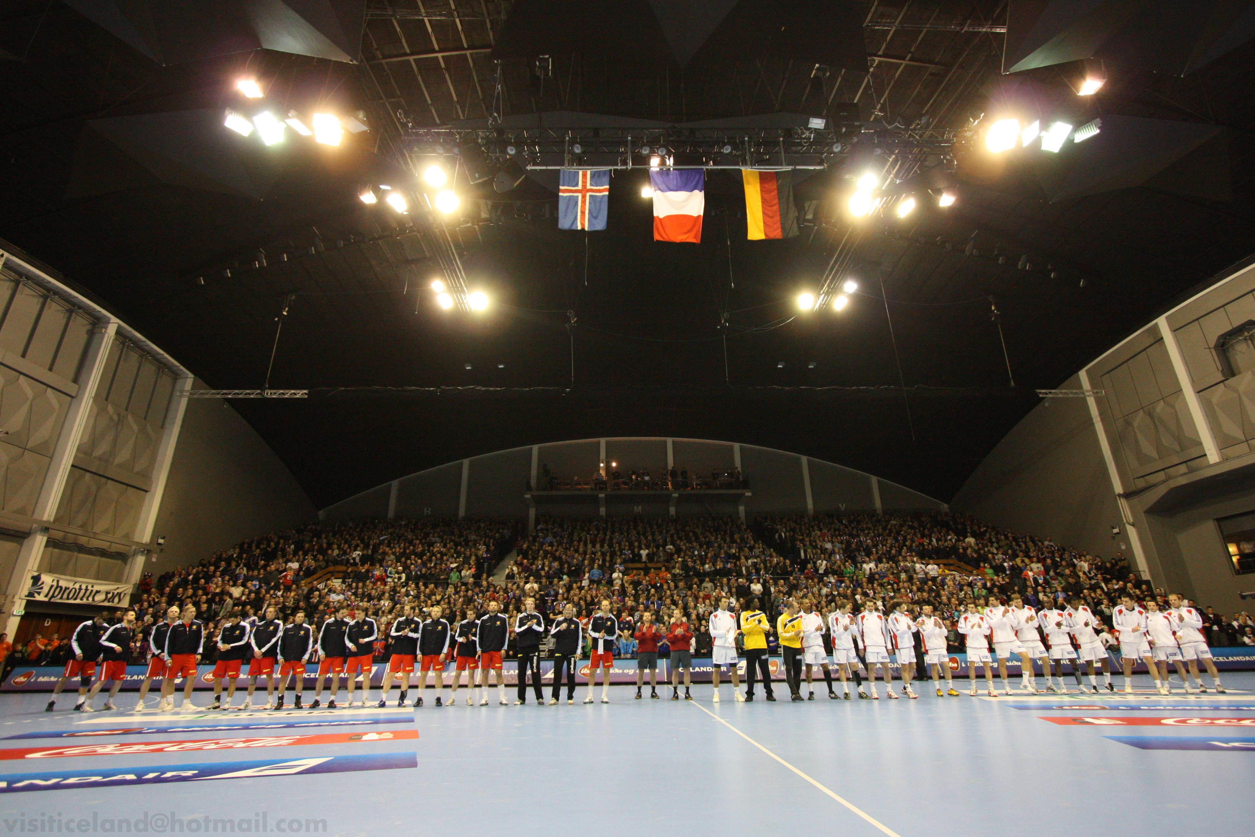 The two best national sports teams in the world met each other in Laugardalshöll on 16 and 17 April 2010.